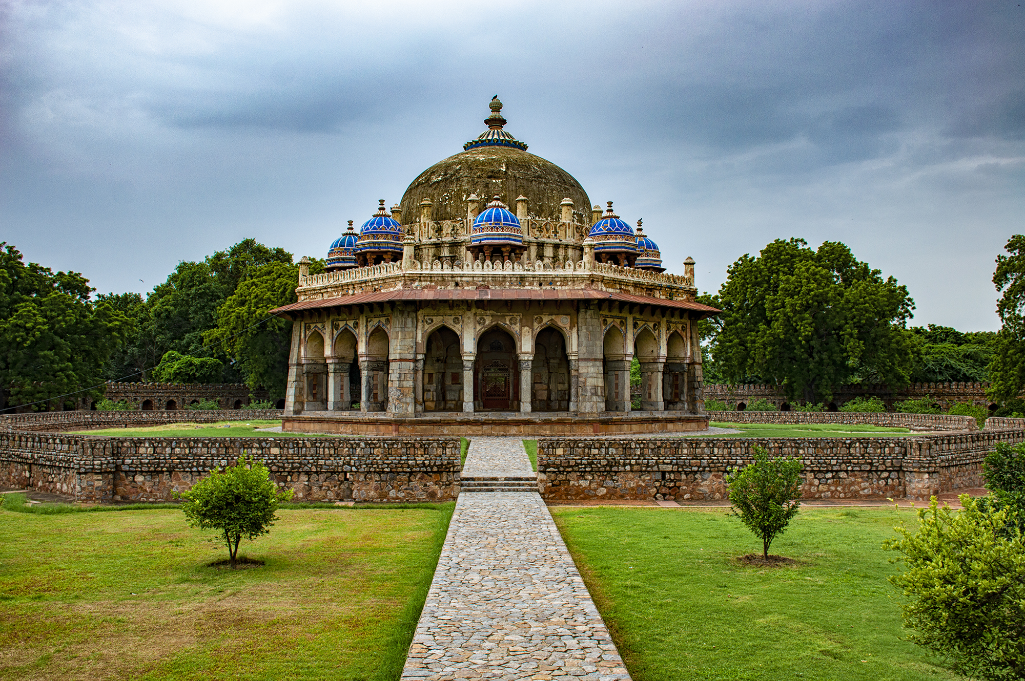 Tomb of Isa Khan Niazi in the Humayun's Tomb Complex.